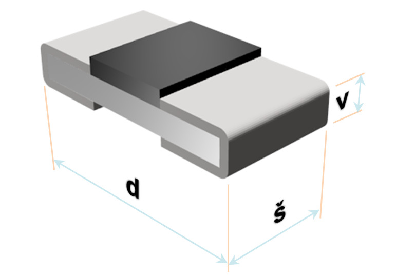 The picture describes SMD resistor component. There are marked width, height and length as shorts in Czech language.